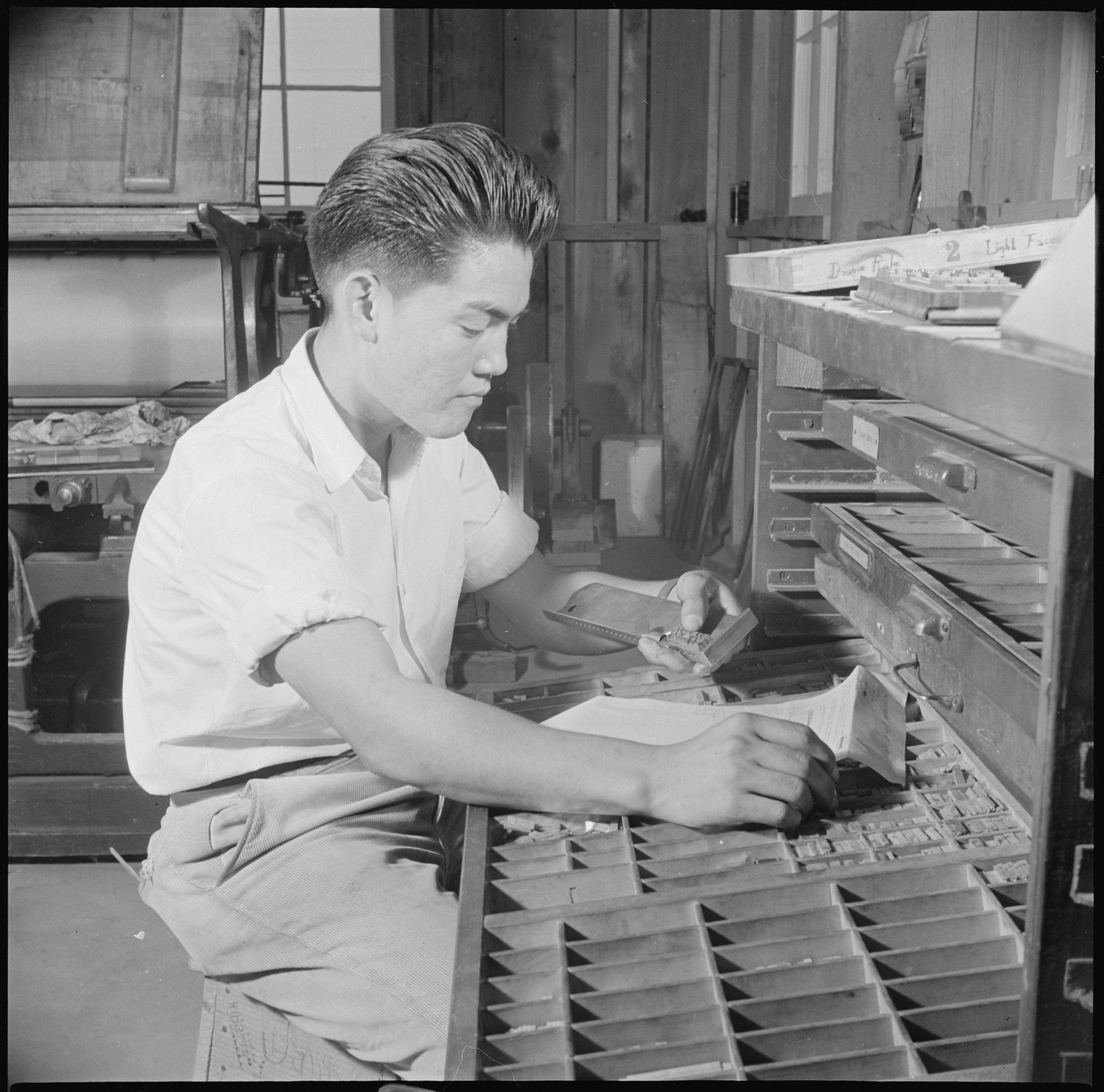 Scope and content: The full caption for this photograph reads: Poston, Arizona. Roy Sugiura, former student of printing at the Roosevelt High School in Los Angeles, is shown hand-setting type which will be used in printing the Poston Chronical. Most body type is set on a machine in a commercial printing company in Phoenix, but heads, picture captions, and some body type is hand-set here.